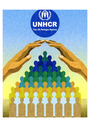 Cropped version of the made by Post of Moldova for the better zoom of the UNHCR logo